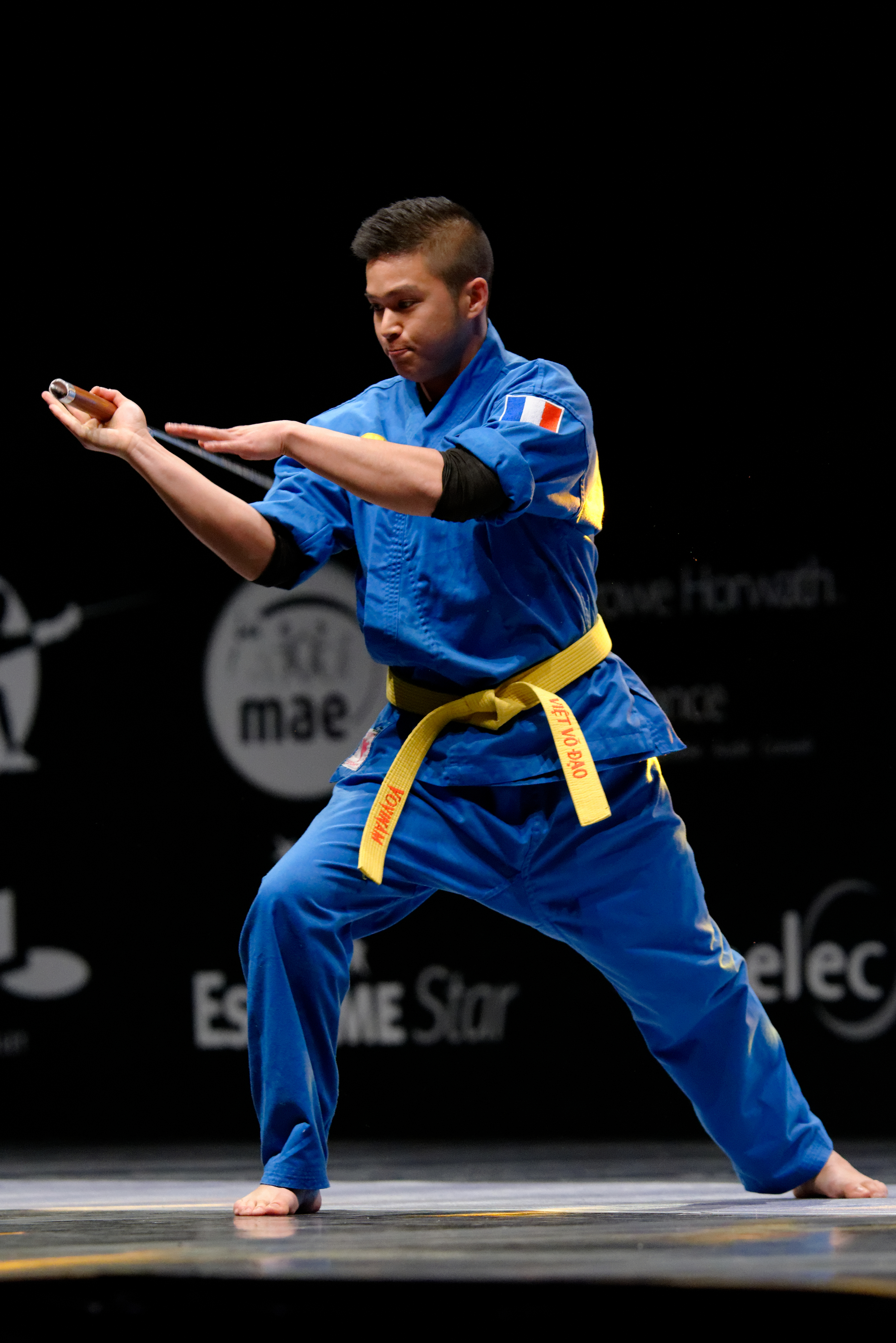 Vovinam demonstration at the 2014 Master de Fleuret Melun Val de Seine.